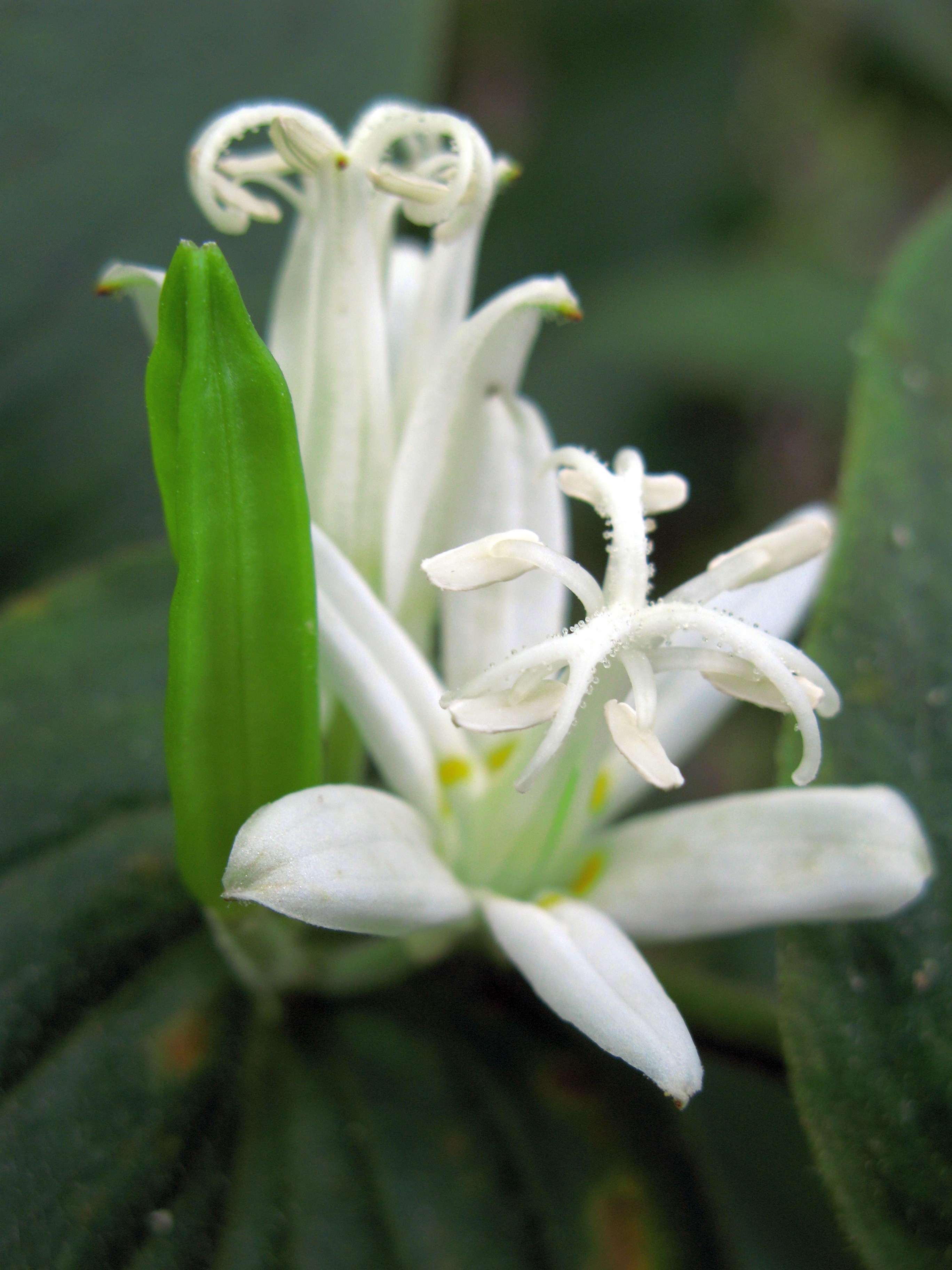 Tricyrtis hirta f. albescens in Sendai city Miyagi-ken(Prefecture), Japan